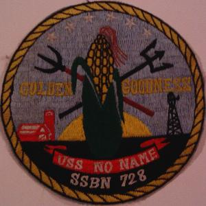 Patch for USS No Name (SSBN 728), created by her pre-commissioning crew at a time when scuttlebutt indicated we would be named Iowa. (In fact, the submarine was named Florida, making the corn somewhat out of place.) Photographed by the Epopt.